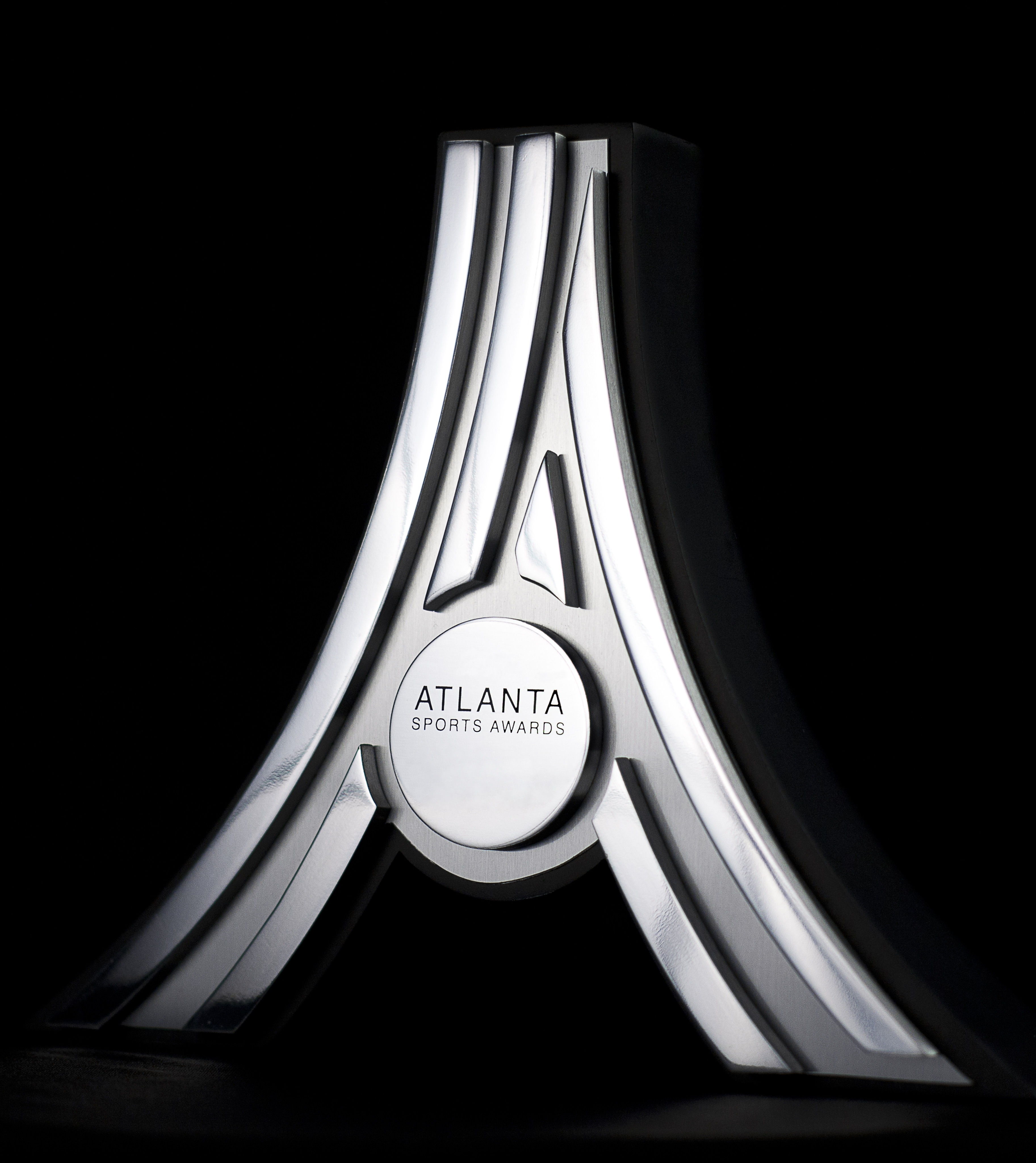 The trophy awarded to the winners at the 2012 Atlanta Sports Awards.